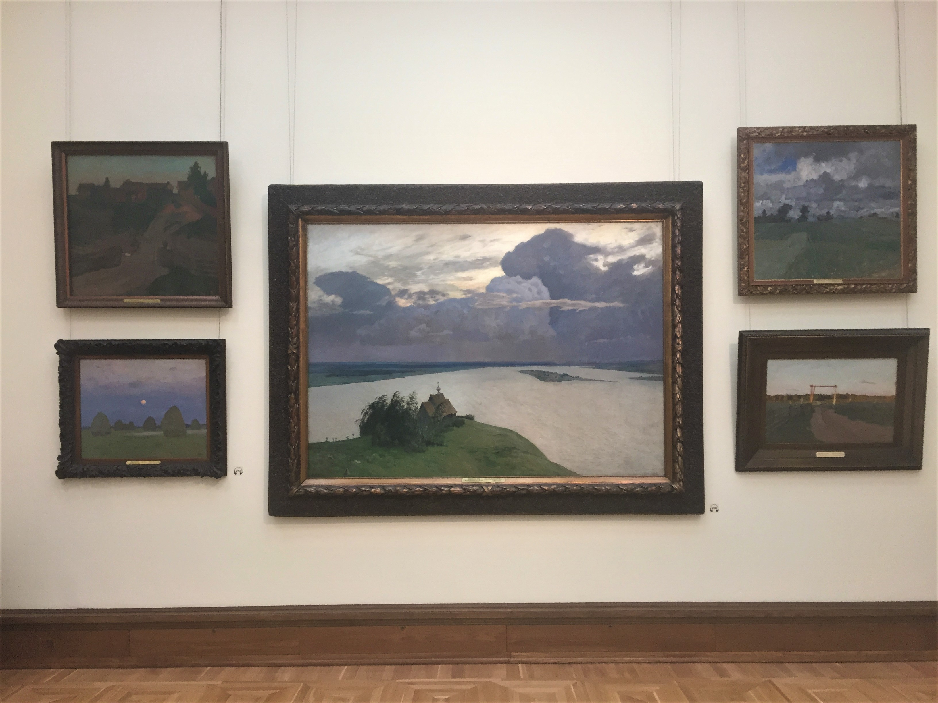 "Above eternal rest" (painting by Isaac Levitan, 1894) in the State Tretyakov Gallery